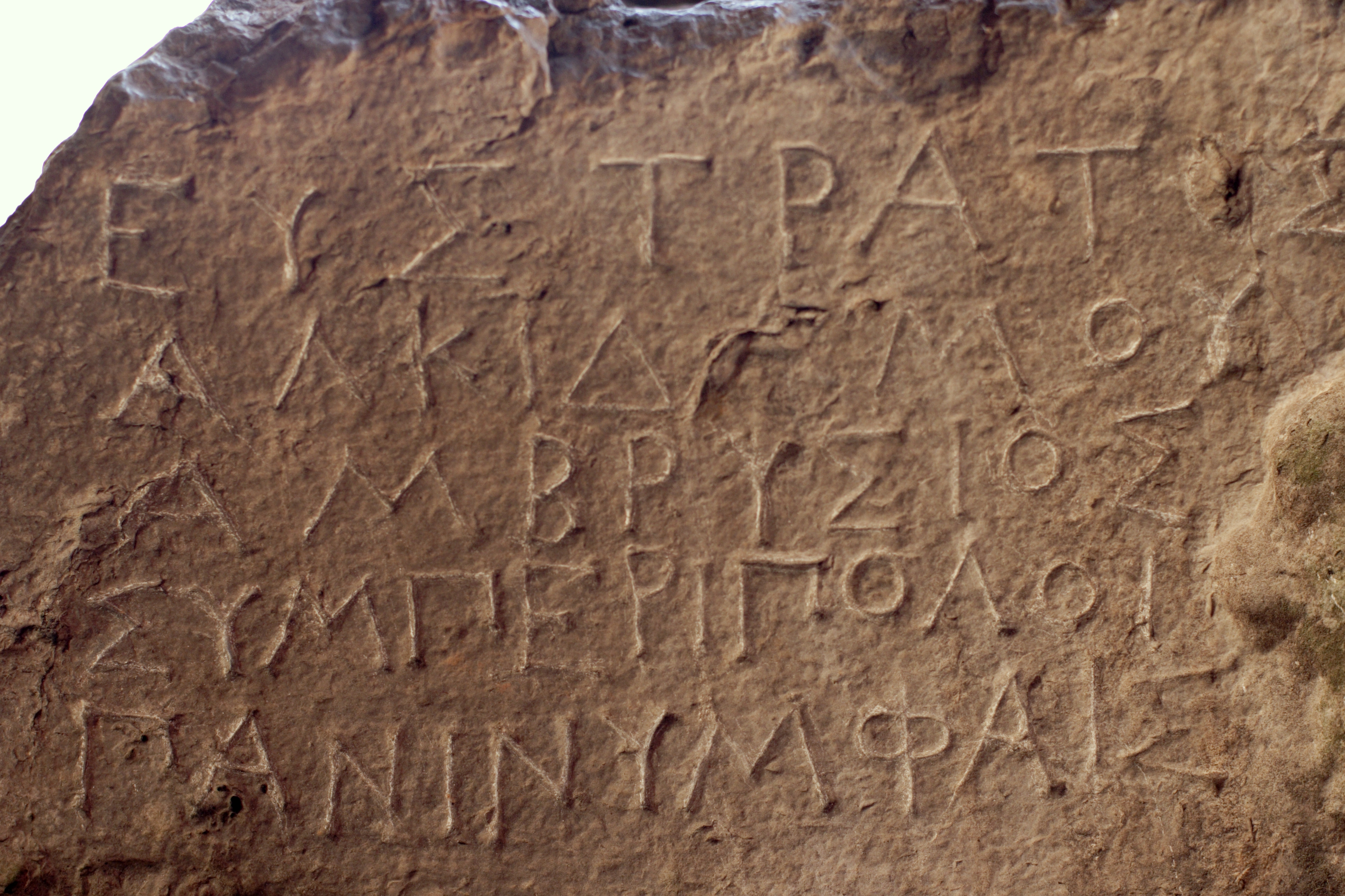 Korykian Cave. Ancient Greek inscription at the entrance to the cave: "Eustratos for nymphs."